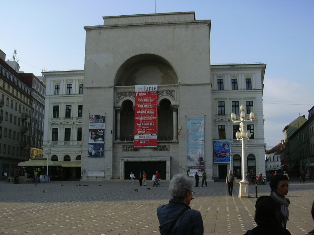 The theatre and opera house in Timisoara, Romania, originally a structure by Ferdinand Fellner and Hermann Helmer, who built many theatres in Austria-Hungary. The theatre is performing in Romanian, Hungarian, and German languages.